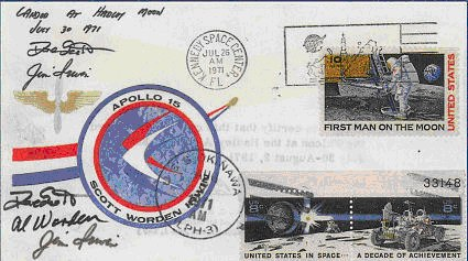 A "Sieger" cover prepared by US Astronauts David Scott, Al Worden, James Irwin